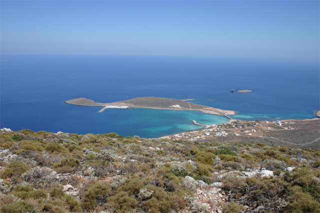 The main port of the island of Kythira (Greece)